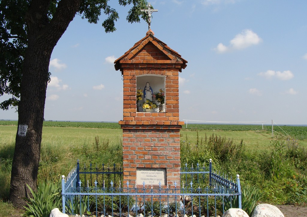 Wieszczyczyn, roadside shrine.